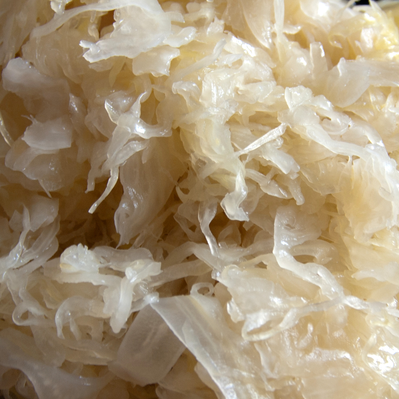 A glas of Sauerkraut from Wesselburen.